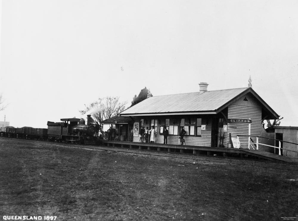 Clifton railway station, 1897. Small group of people waiting on the platform at Clifton railway station, as a steam train pulls in.